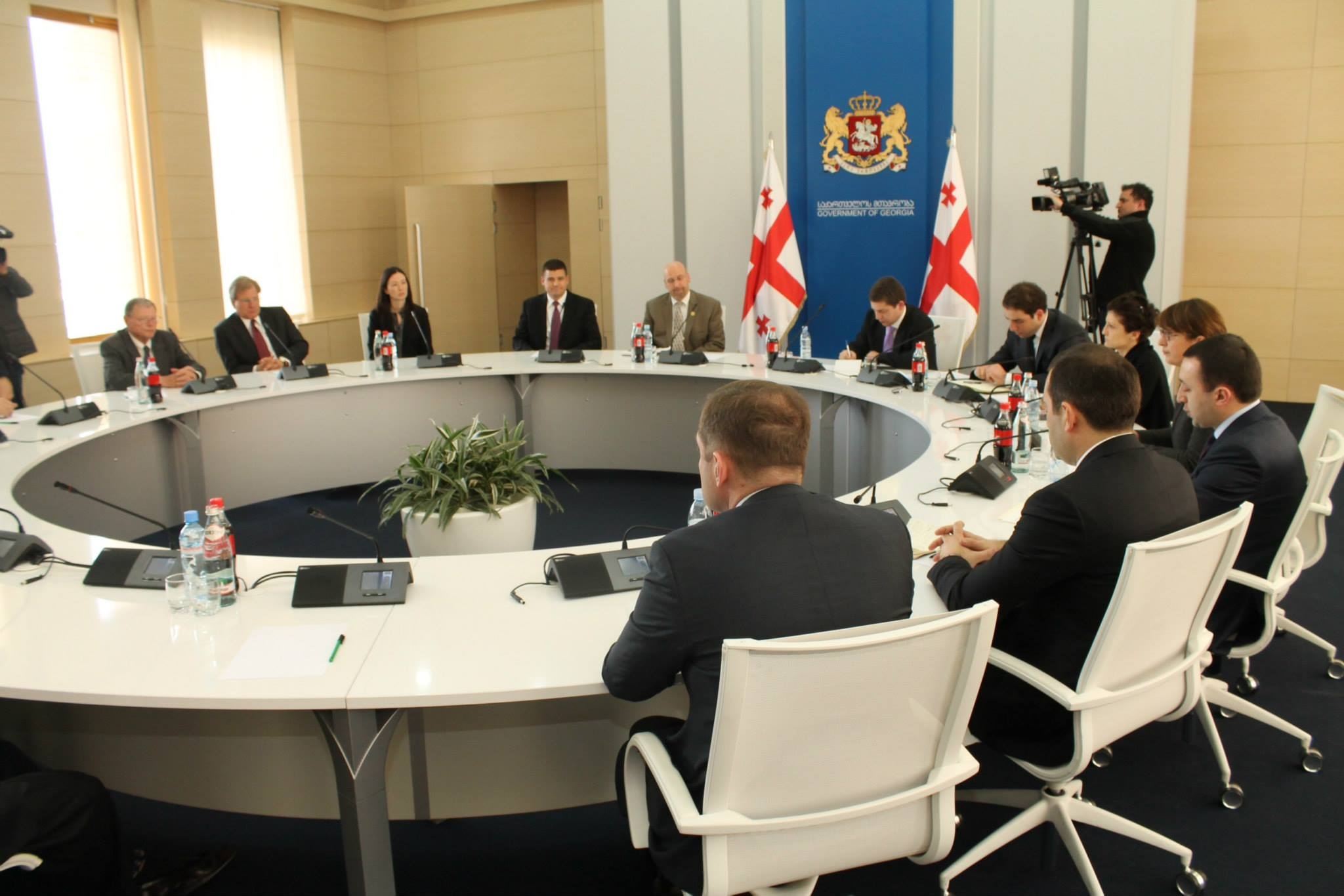 Congressional Delegation's meeting in Chancellery.